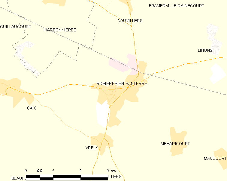 Map of French municipality Rosières-en-Santerre